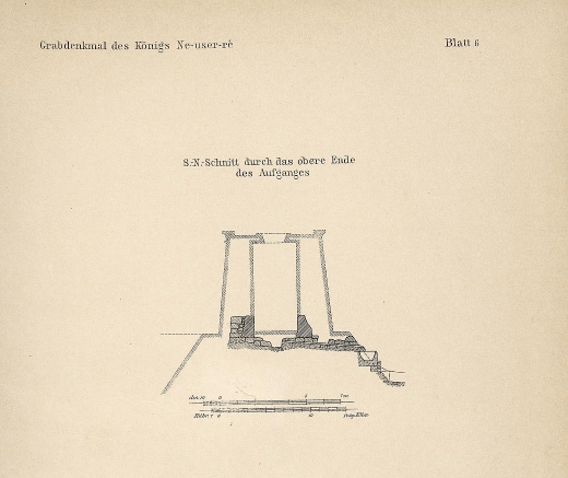 A cross-section of Nyuserre's causeway as drawn by Ludwig Borchardt (1863 - 1938) and published in Grabdenkmal des Königs Ne-user-re in 1907.